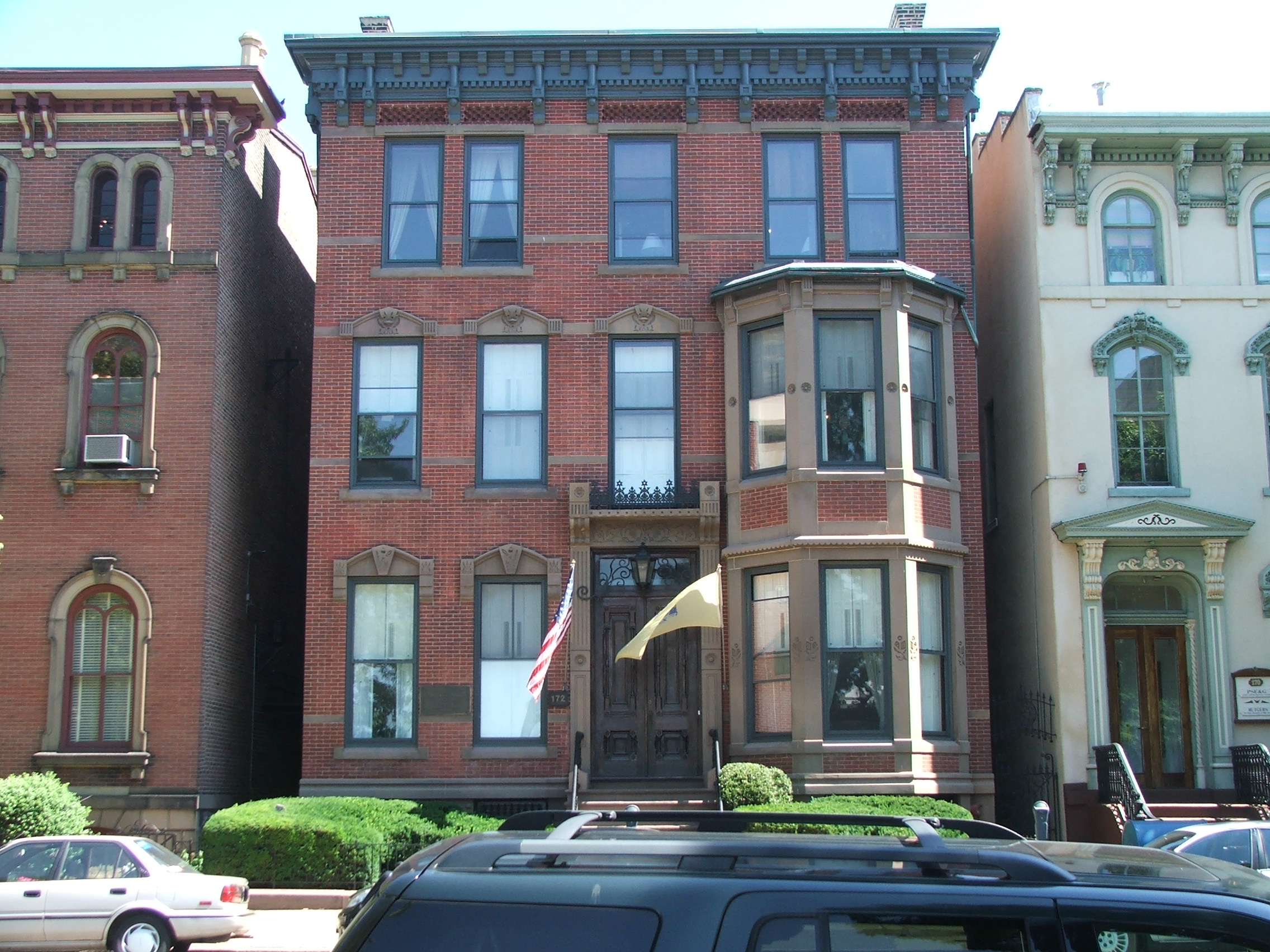 The office of the Governor of New Jersey, located in Trenton, across the street from the New Jersey Legislature. Courtesy of User:68.39.174.238. BD2412 T 03:39, 14 June 2006 (UTC) The Governor of New Jersey's office across the street from the New Jersey State House. 68.39.174.238 12:27, 14 June 2006 (UTC)